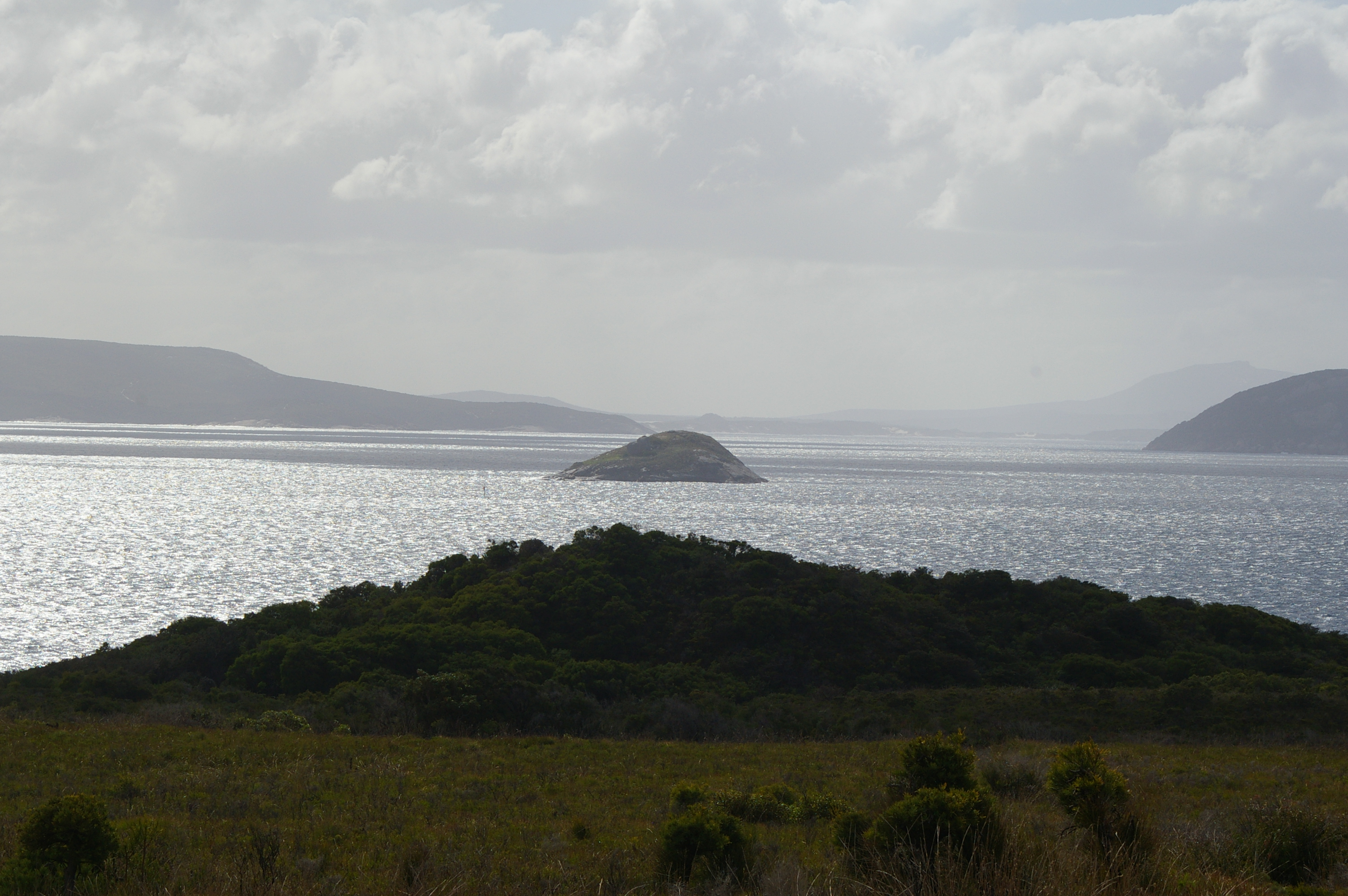 Seal Island from near Goode Beach Torndirrup National Park